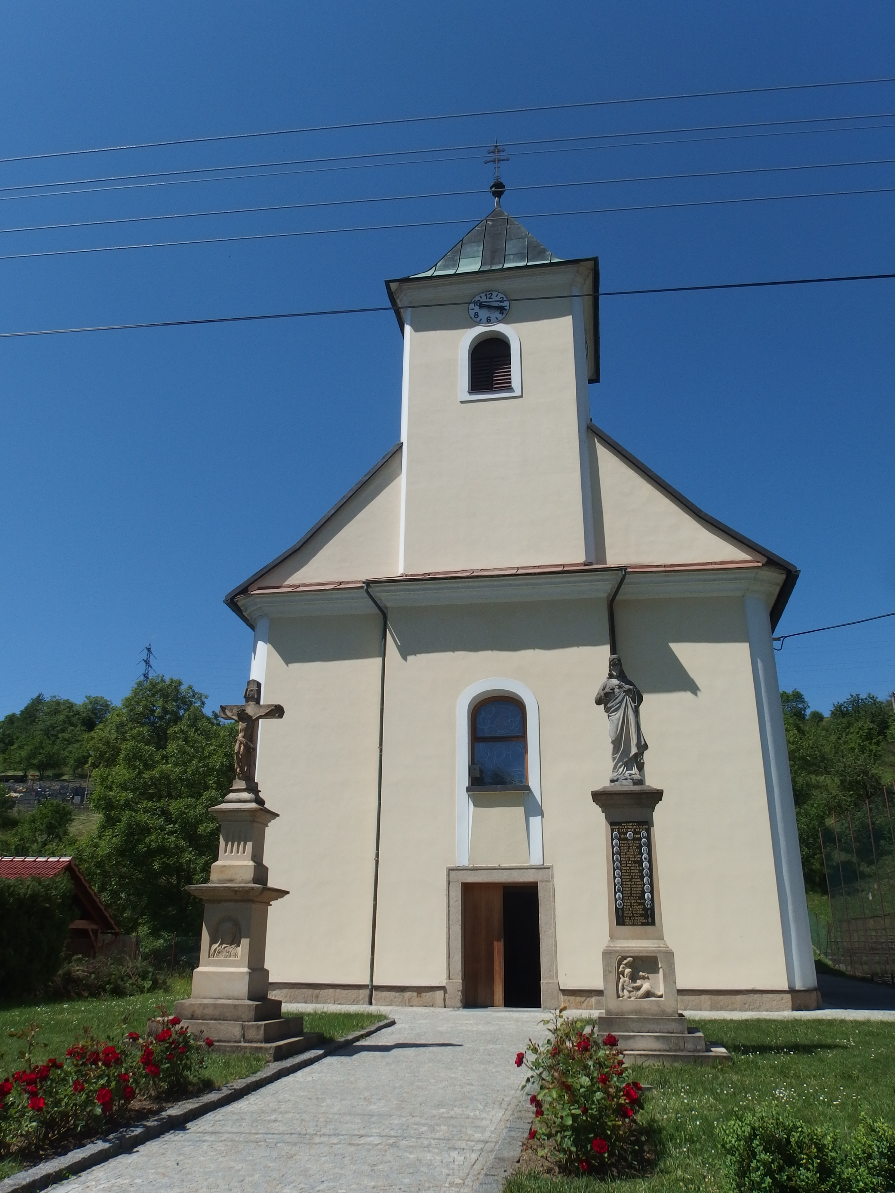 Všemina, Zlín District, Czech Republic.